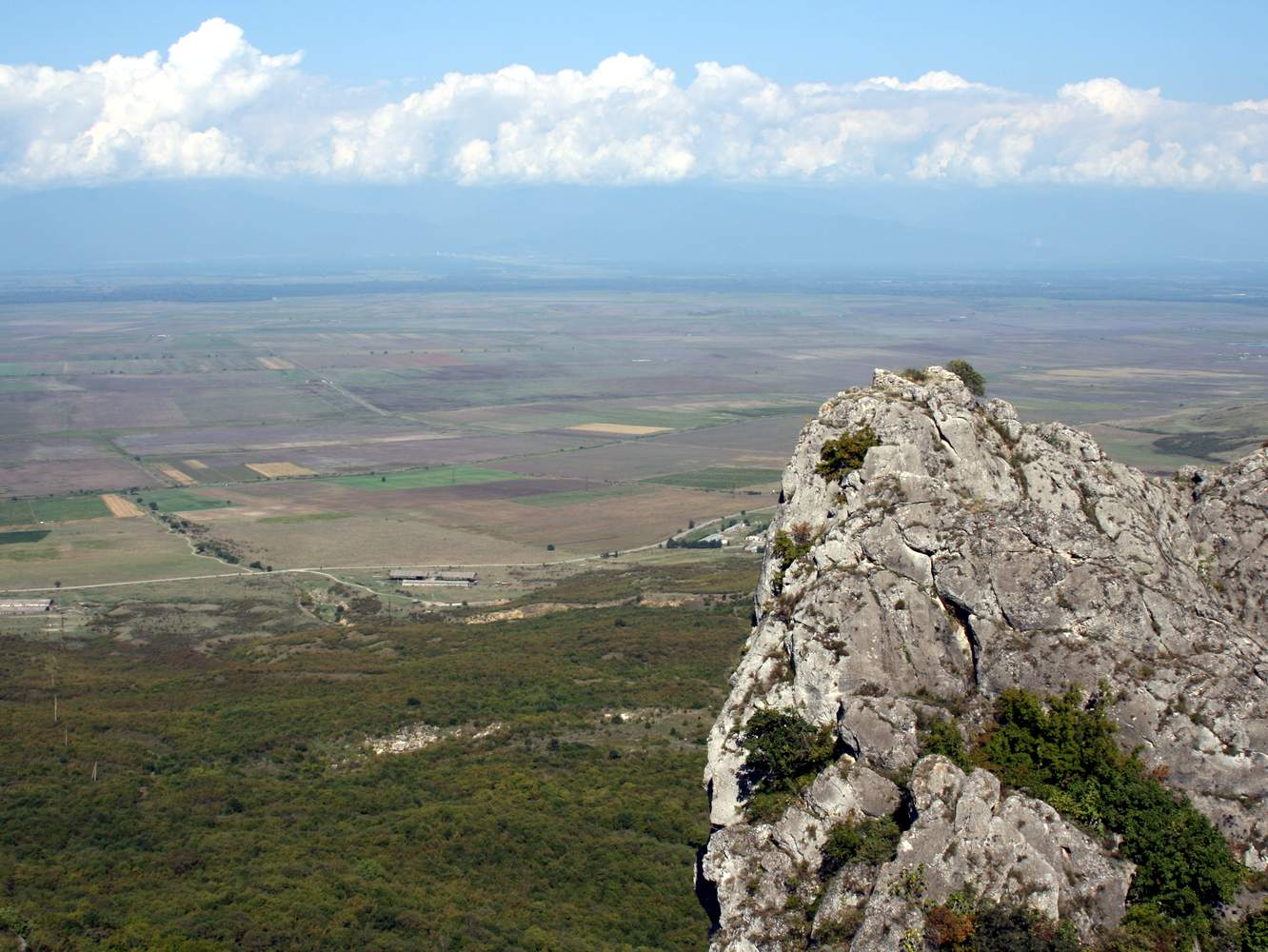 Khornabuji Fortress. View of the Alazani Plain